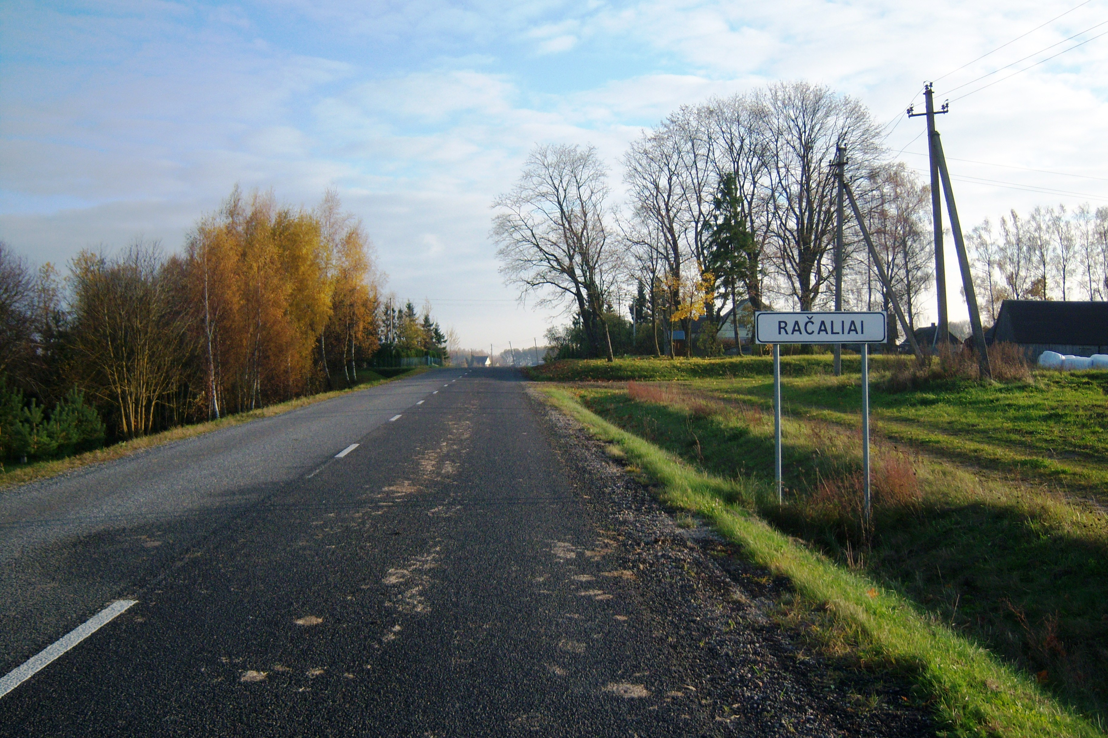 Račaliai, Mažeikiai district, Lithuania